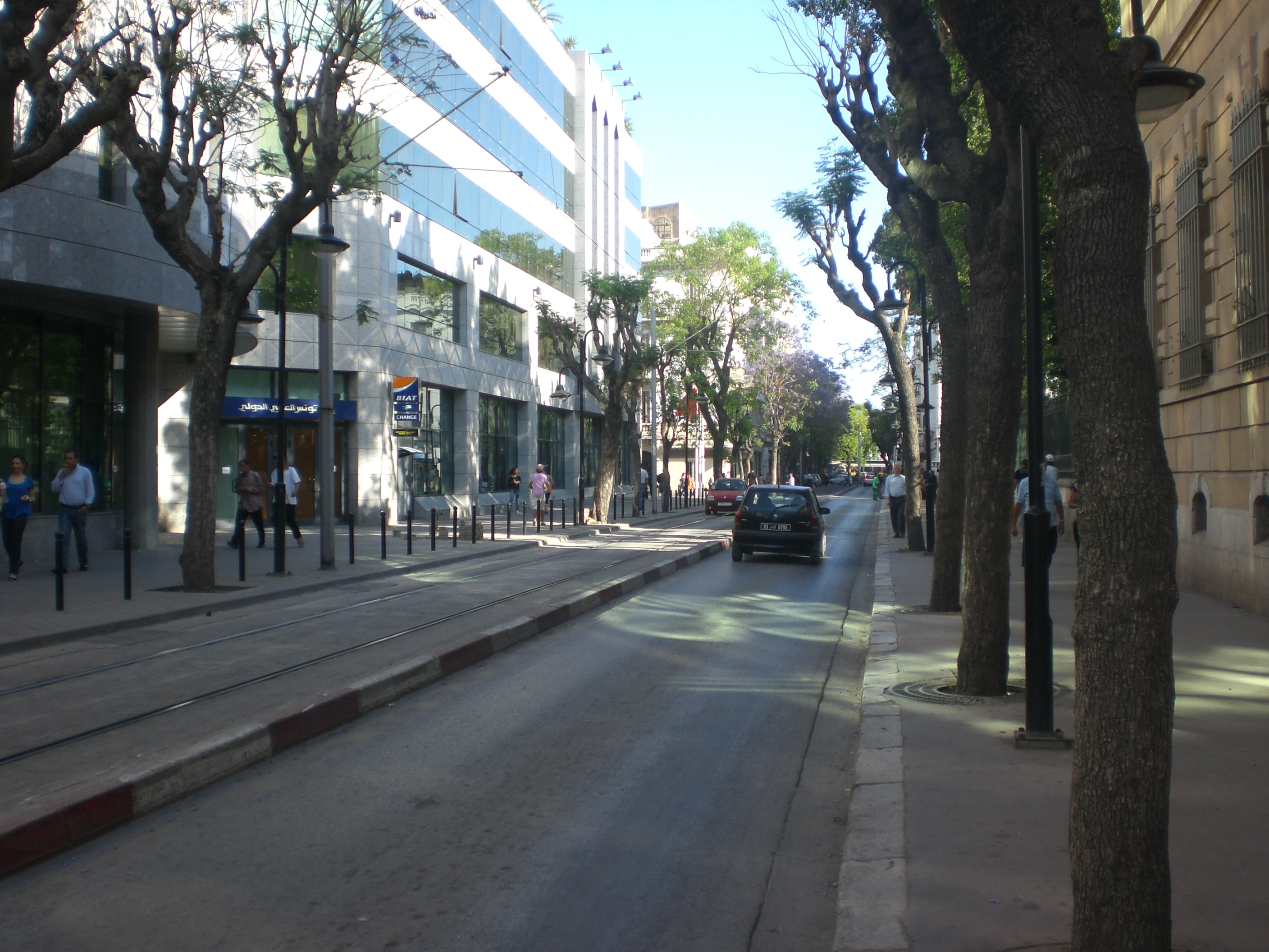 Rue de Hollande Tunis